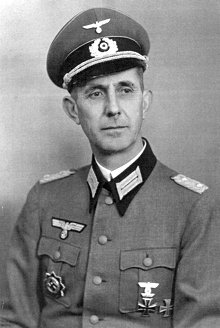 Portrait of Heinz von Randow